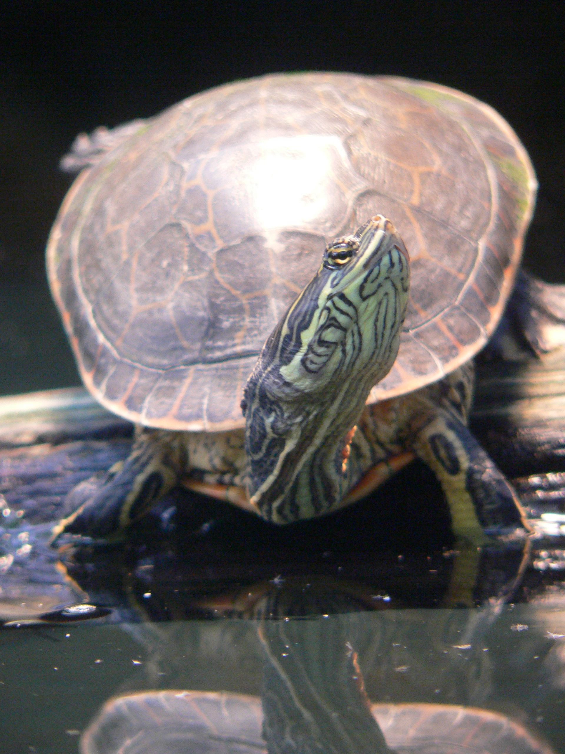 Deirochelys reticularia